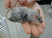 Chimeric mouse produced by blastocyst injection of genetically modified embryonic stem cells.